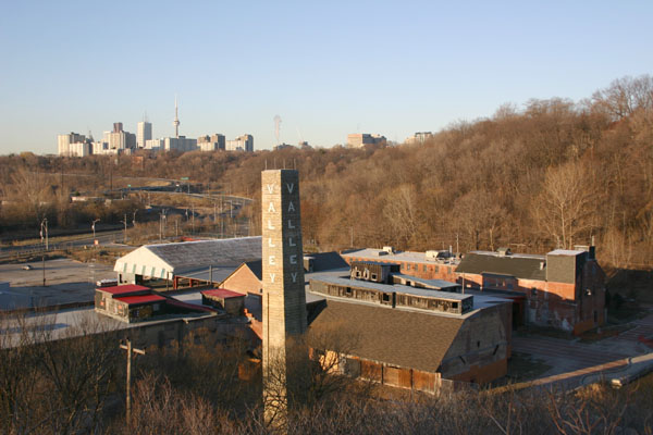 Photo by Marcus Williams, Spring 2006.